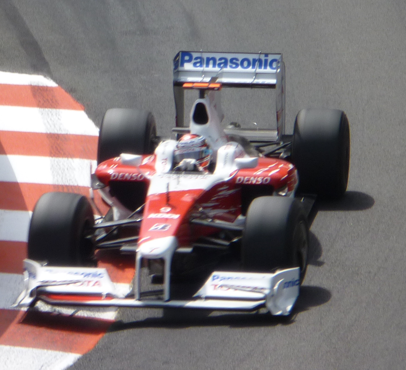 Jarno Trulli driving for Toyota F1 at the 2009 Monaco Grand Prix.